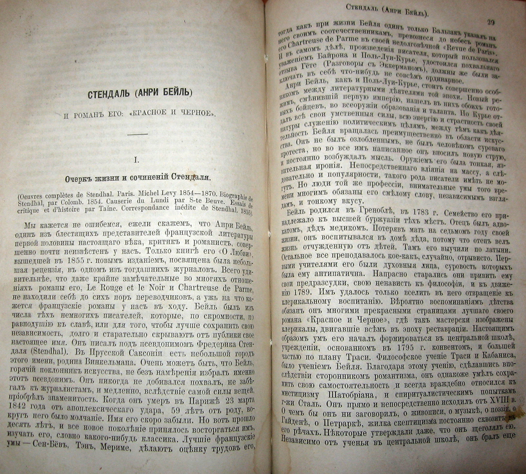 "Stendhal", article of Alexey Pleshcheyev